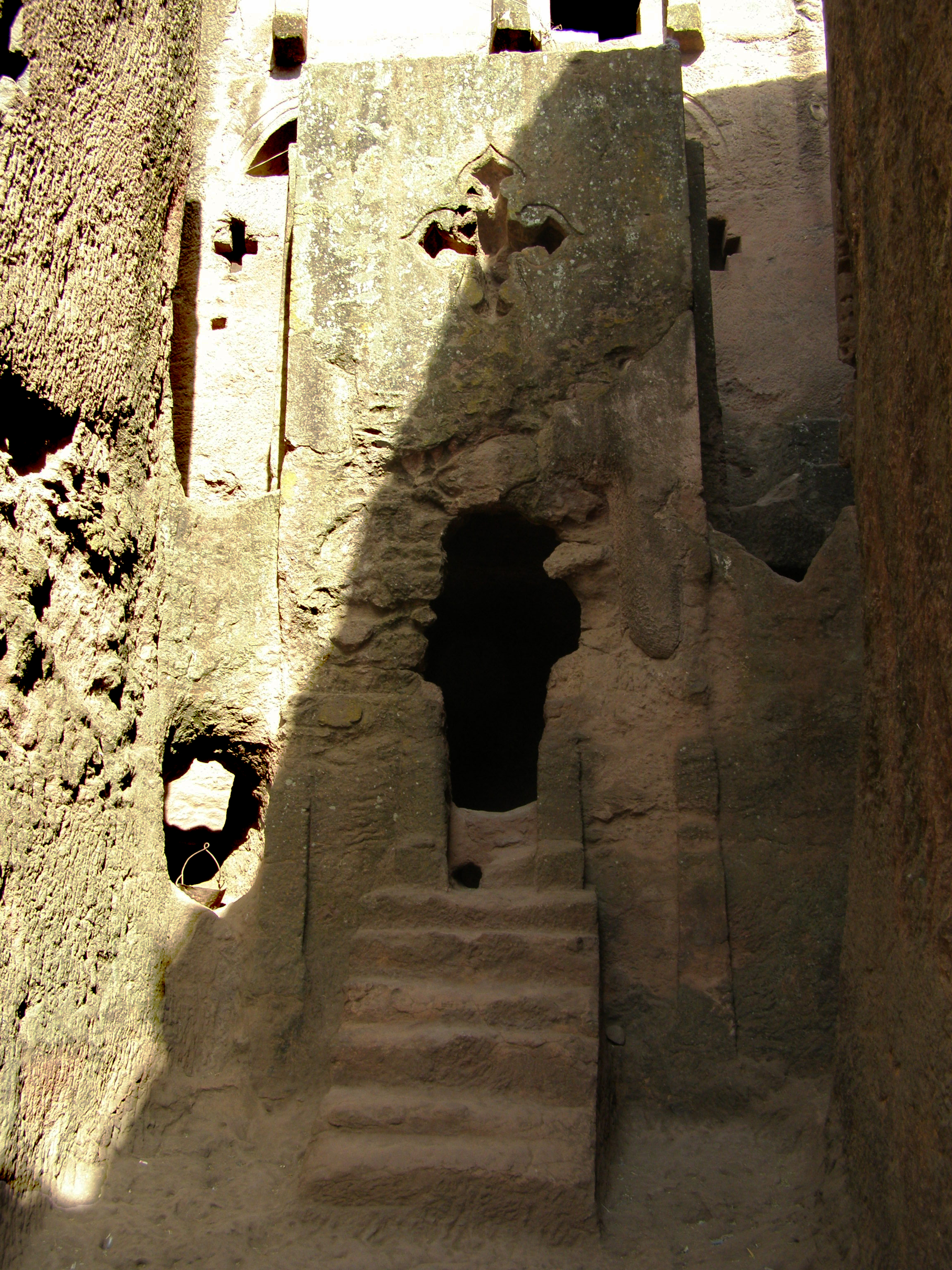 This enclosure is an extension of the Sellassie Chapel and linked to the Beta Golgotha-Beta Mikael Complex and is located on the western side of the Sellassie Chapel.